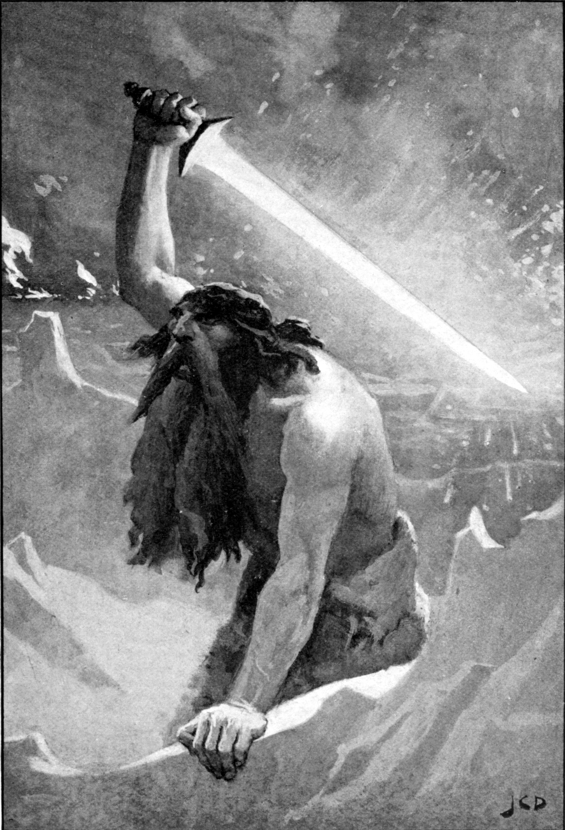 The Giant with the Flaming Sword (the title given to the work in the list of illustrations on page vii)